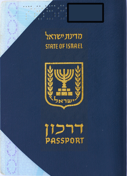 Israeli Passport, Cover. The torn corners marks that the passport is canceled.